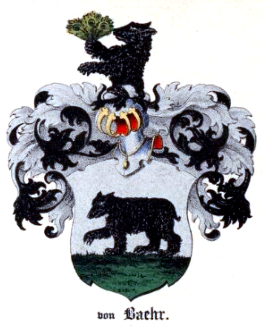 Coat of arms of von Baehr (von Bähr) family